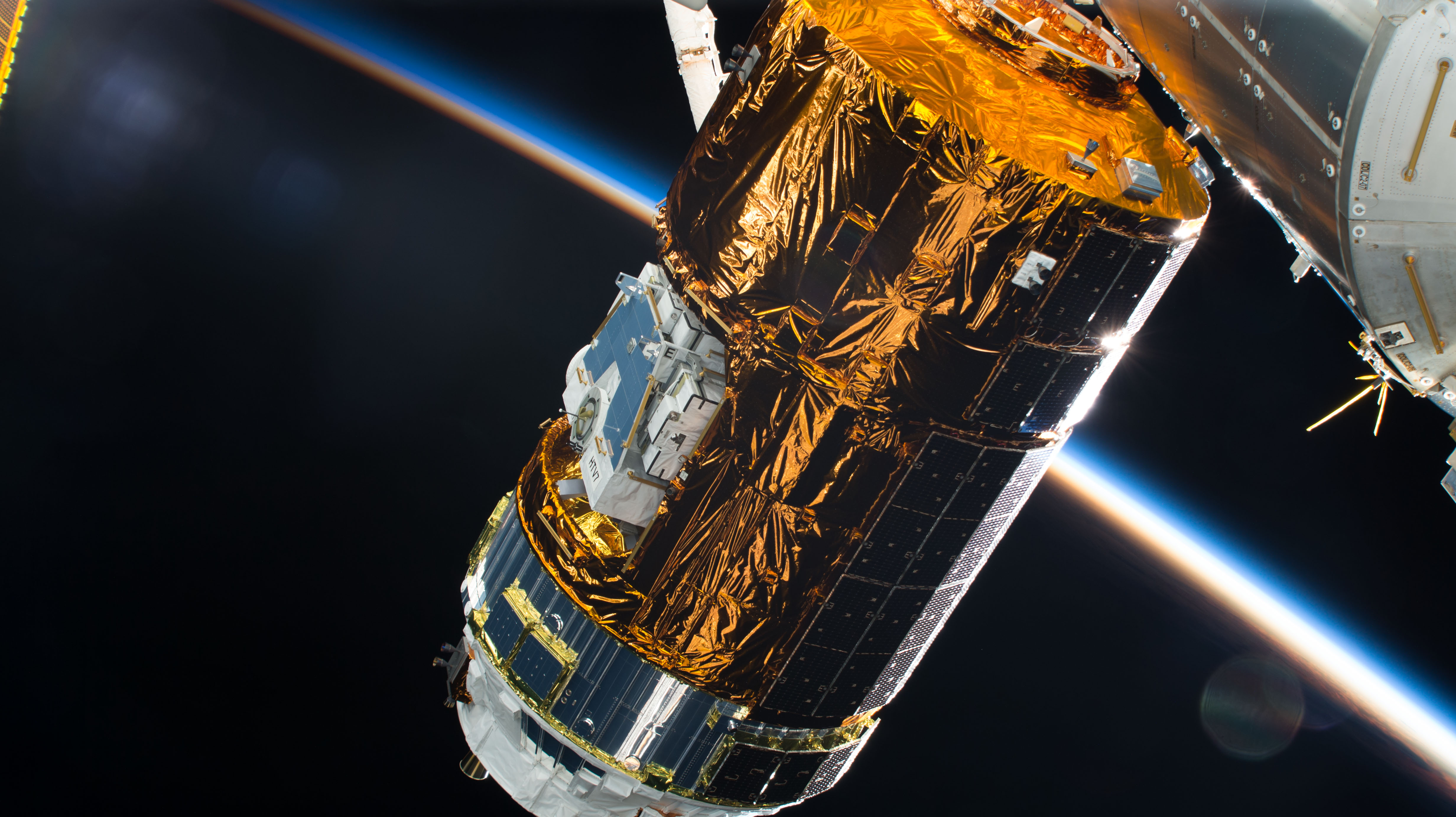 The H-II Transfer Vehicle-7 (HTV-7) from JAXA (Japan Aerospace Exploration Agency) is pictured being remotely guided with the Canadarm2 towards its attachment point on the International Space Station's Harmony module. The HTV-7 took a four and a half day trip to the space station after launching Sept. 22, 2018, from the Tanegashima Space Center in Japan. The HTV-7 was captured by the Canadarm2 operated by Expedition 56 Commander Drew Feustel as Flight Engineer Serena Auñón-Chancellor backed him up inside the cupola.